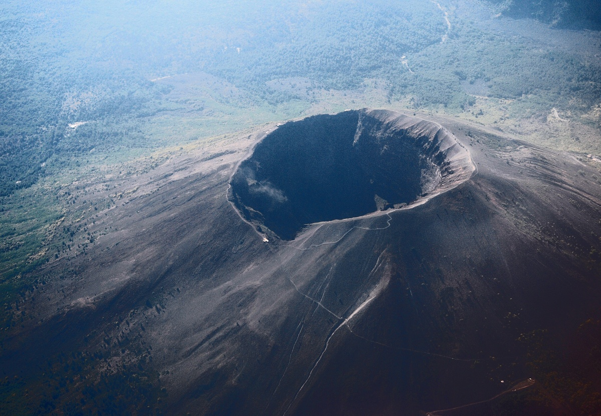 Vesuvius from plane